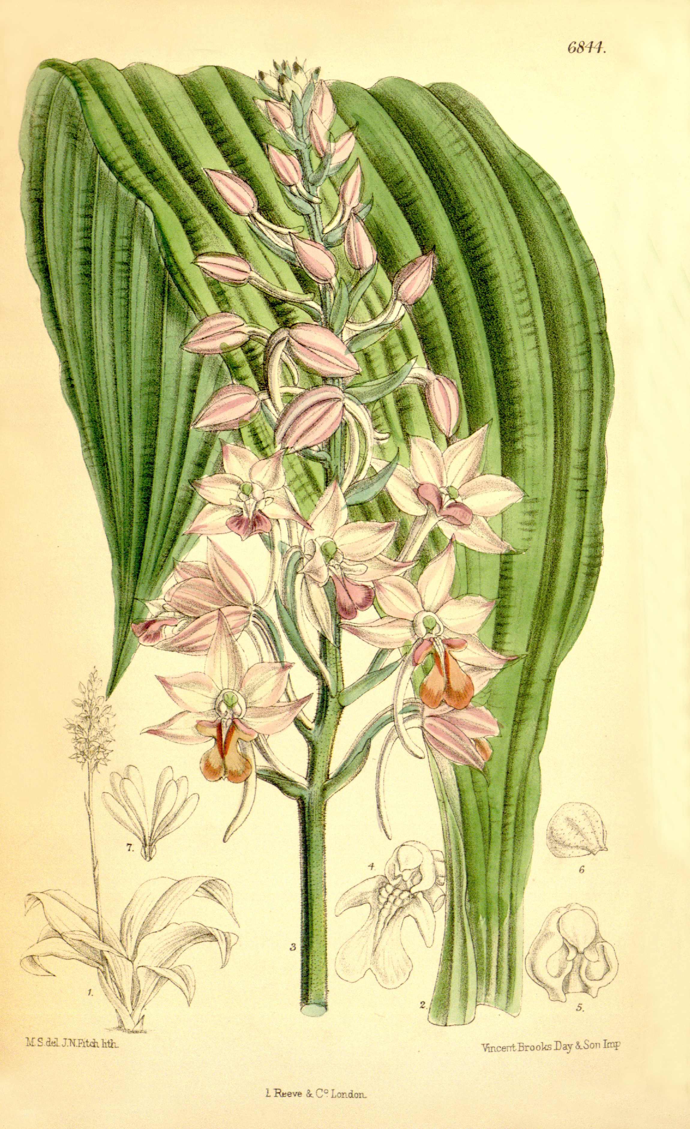 Illustration of Calanthe sylvatica (as syn. Calanthe natalensis)